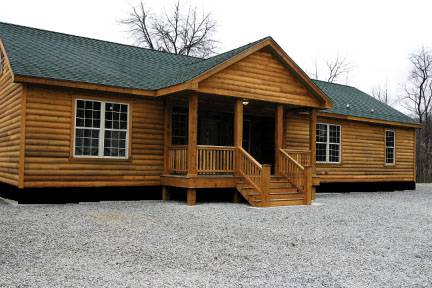 Exterior of a modern modular home with log exterior option